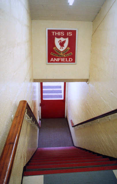 "This is Anfield" sign at Anfield: note that this Commorant (liver bird) design is part of the city's coat of arms as early as 1901,[1] (hence in UK public domain by virtue of expiry of corporate copyrights and in US public domain by virtue of pre-1923 publication).